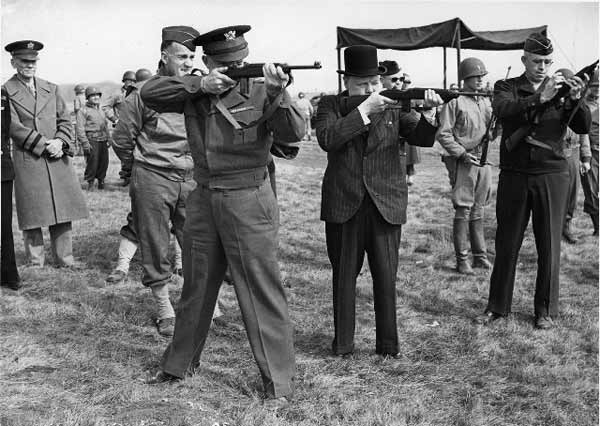 L-R: MG Edward H. Brooks (observing), GEN Dwight D. Eisenhower, PM Winston Churchill and LTG Omar Bradley shooting the M1 Carbine during preparations for Operation Overlord.